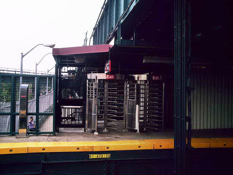 High Entry-Exit turnstile on the southbound platform of Livonia Avenue. This turnstile allows passengers on that side to enter/exit the station without having to go through the mezzanine and main entrance. Behind it is a pedestrian bridge that allows access to Junius Street.